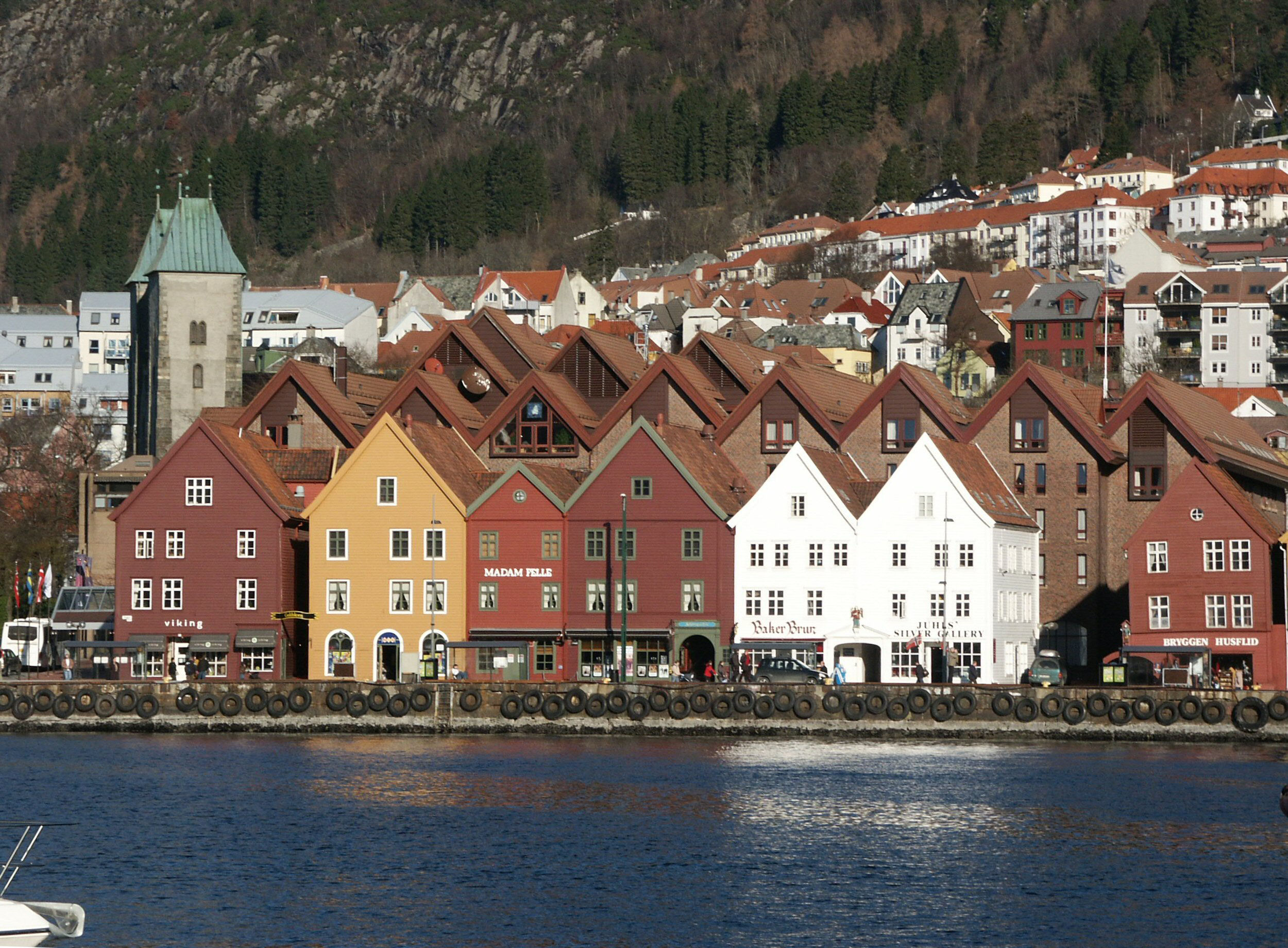 Adapition to environment i architecture, Bryggen in Bergen, Norway. Intensions may be good, but the new building behind Bryggen is reducing its visual impression.